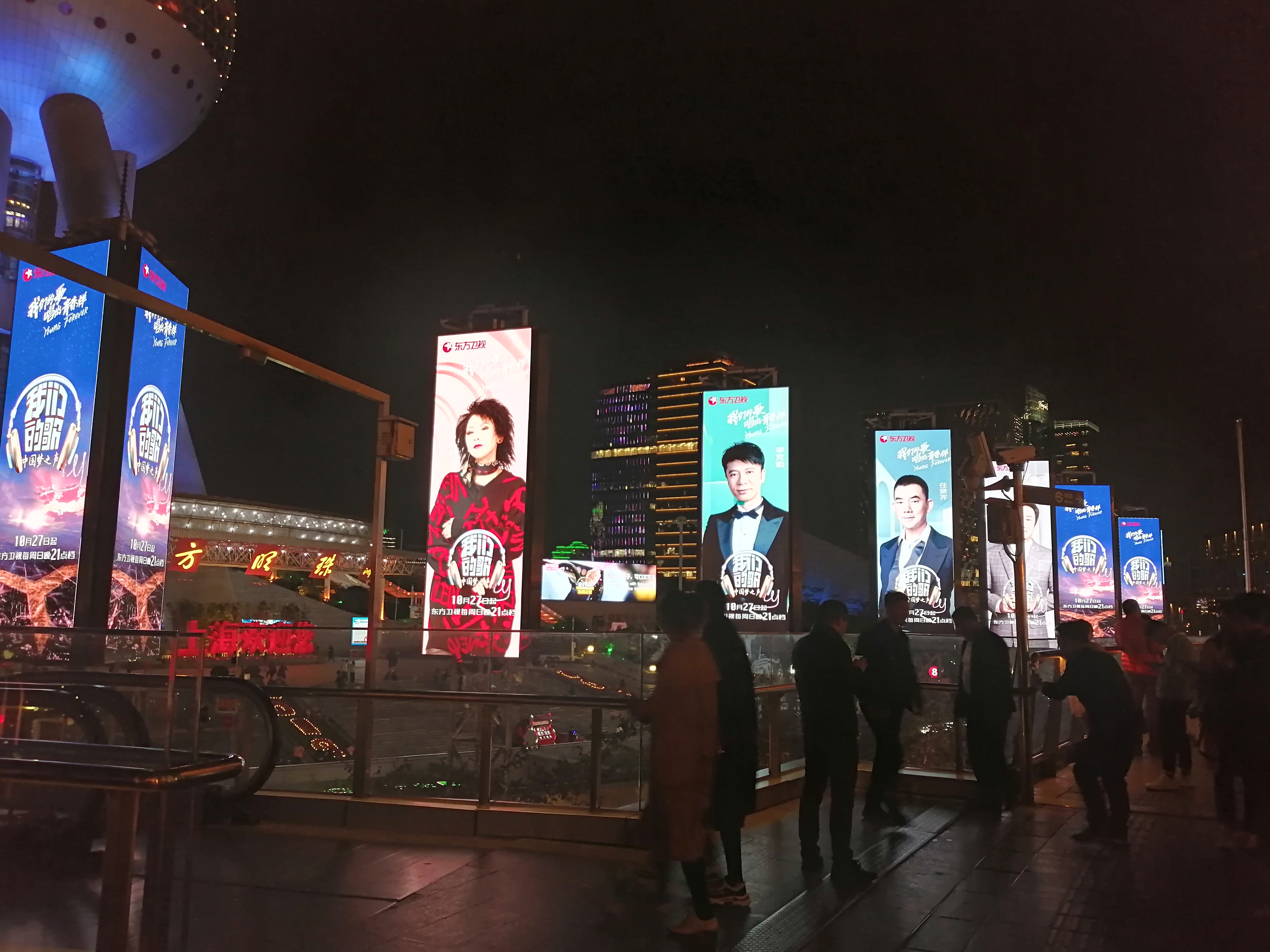 Here is the promotion display of Our Songs near Oriental Pearl Tower in Shanghai, which broadcasted on Dragon TV. 中文（中国大陆）: 上海东方明珠塔旁的电子显示屏，宣传东方卫视《我们的歌》节目。